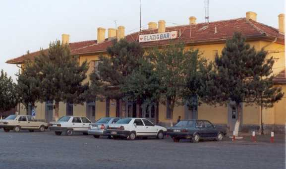 Elazig station in June 2001.